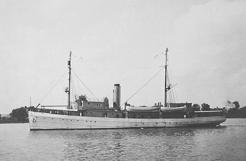 USC&GS Pioneer